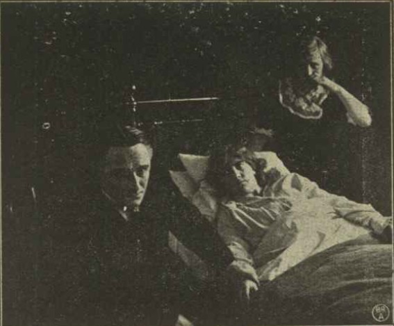 From the program for the silent movie Nobody's Daughter (DK/US: 1916). Marketing pamflet